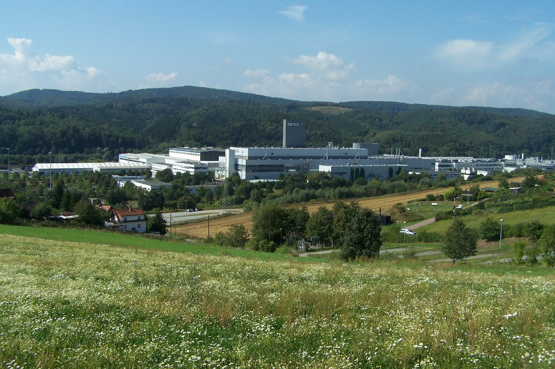 The Adam-Opel car factory in Eisenach.